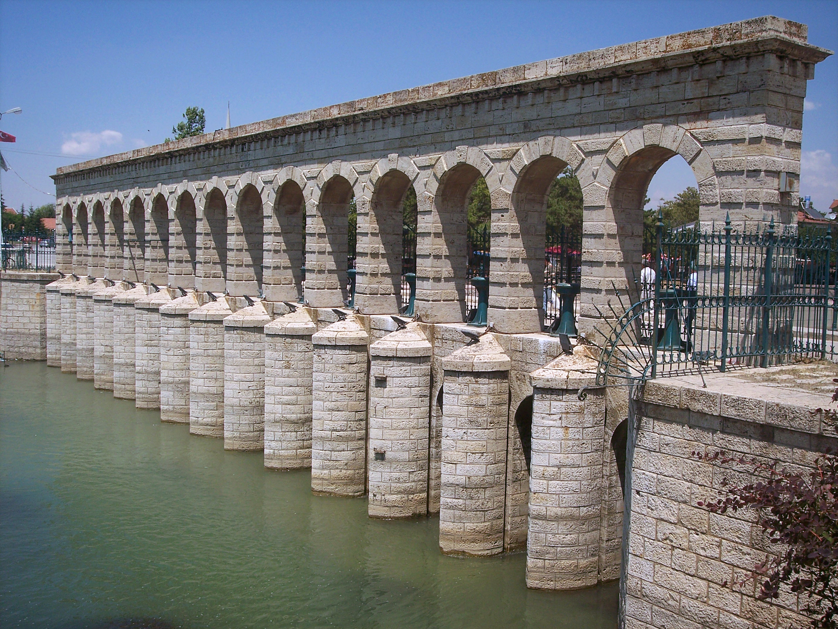 Taş Köprü ("Stone Bridge") a historical regulator dam in Beyşehir/Konya of the modern-day Turkey. It was built in the first quarter of 20th century as the first irrigation project of Ottoman Empire.